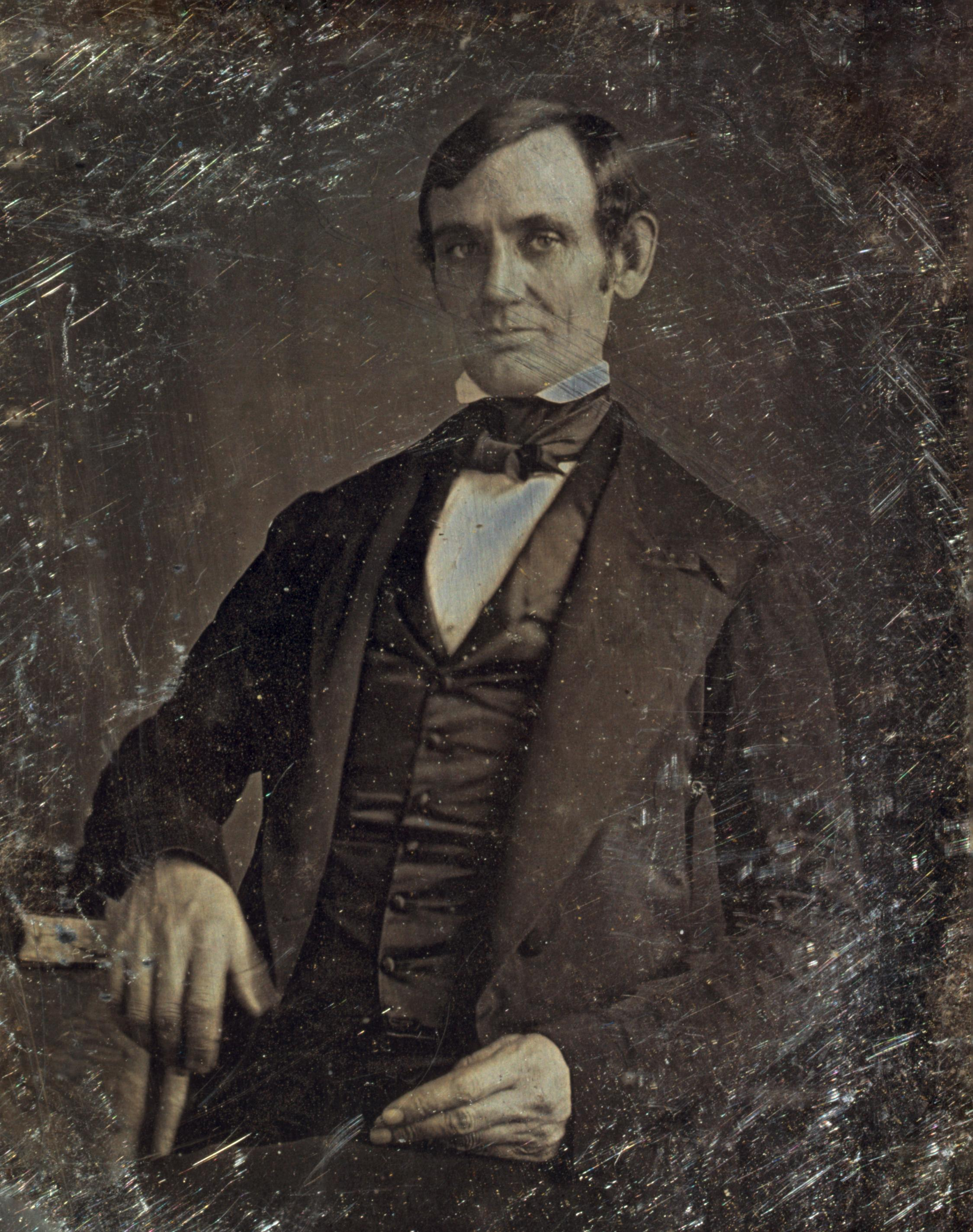 Quarter plate daguerreotype of Abraham Lincoln, Congressman-elect from Illinois.